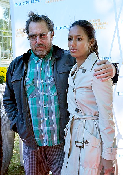 Director Julian Schnabel and journalist Rula Jebreal attend Conversation With Julian Schnabel during 18th Annual Hamptons International Film Festival on October 8, 2010 at Guild Hall in East Hampton, New York. (Photo © Nick Stepowyj)